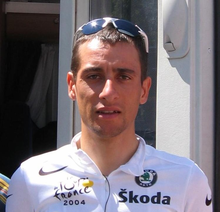 French cyclist from , Sandy Casar during the 2004 Tour de France (Saint-Flour, Cantal)